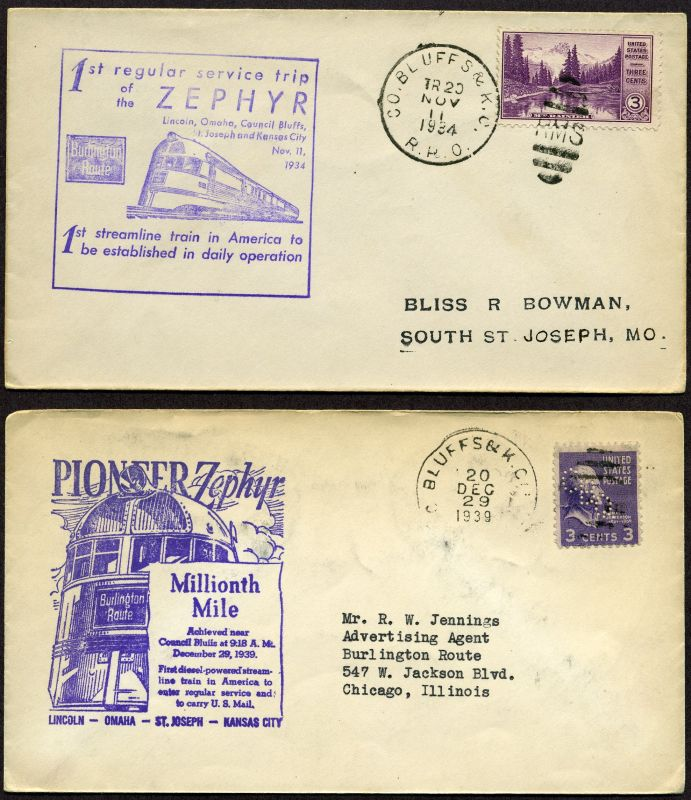 Commemorative postal covers for the first run and millionth mile of the Pioneer Zephyr. These covers were carried aboard the train on November 11, 1934 (first run) and December 29 1939 (millionth mile). The graphic was applied by the Chicago, Burlington and Quincy Railroad to commemorate the events. The lower cover for the millionth mile commemoration also shows an example of a perfin stamp, with the letters "CBQ", the reporting mark of the Chicago, Burlington and Quincy Railroad, perforated into the stamp itself.